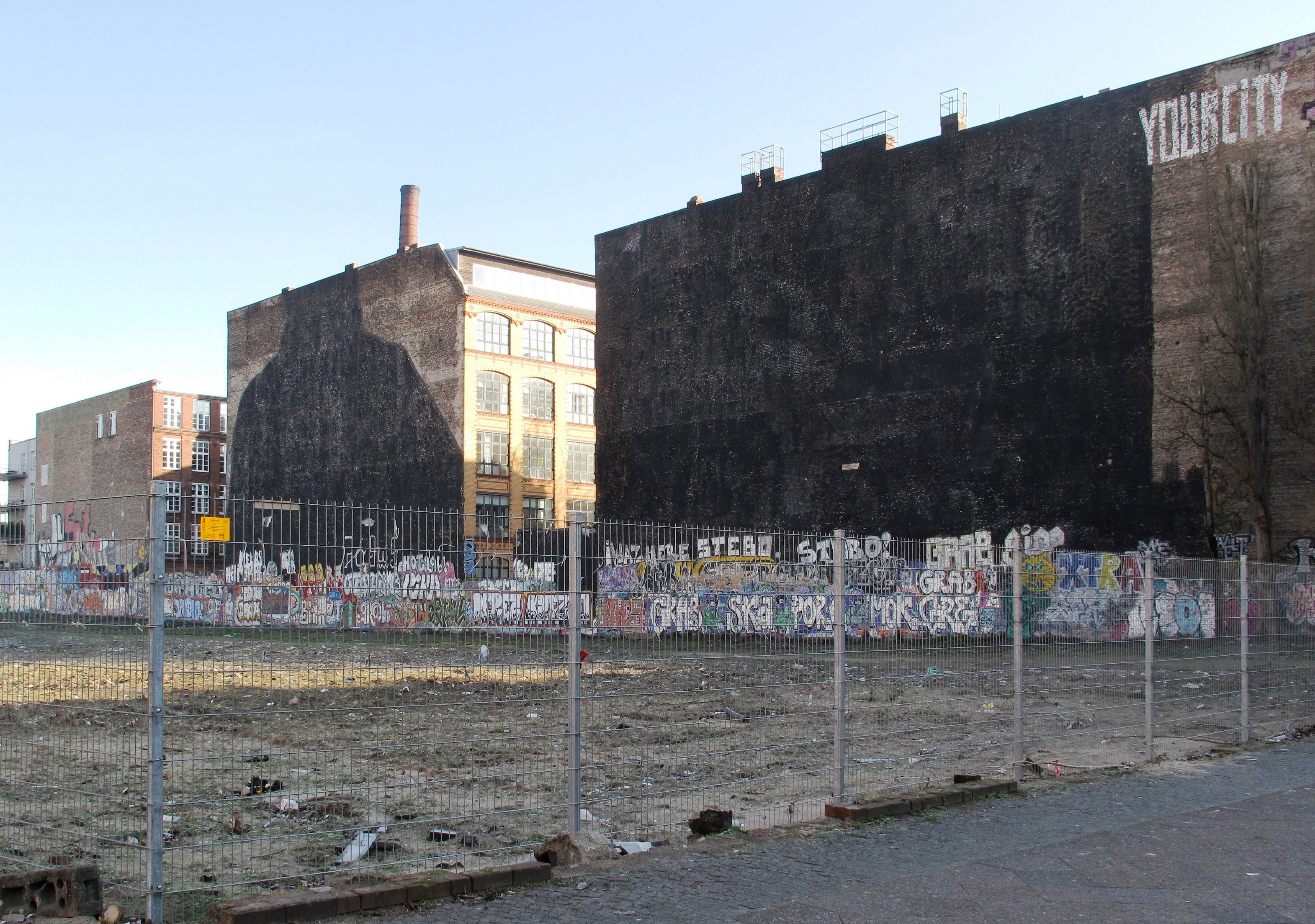 Cuvrybrache (german for: wasteland, fallow land) in Berlin-Kreuzberg, Cuvrystraße, Germany; after the overpainting of the Cuvry-Graffiti.